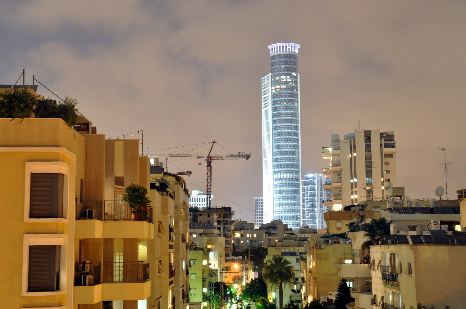 Cities in Israel